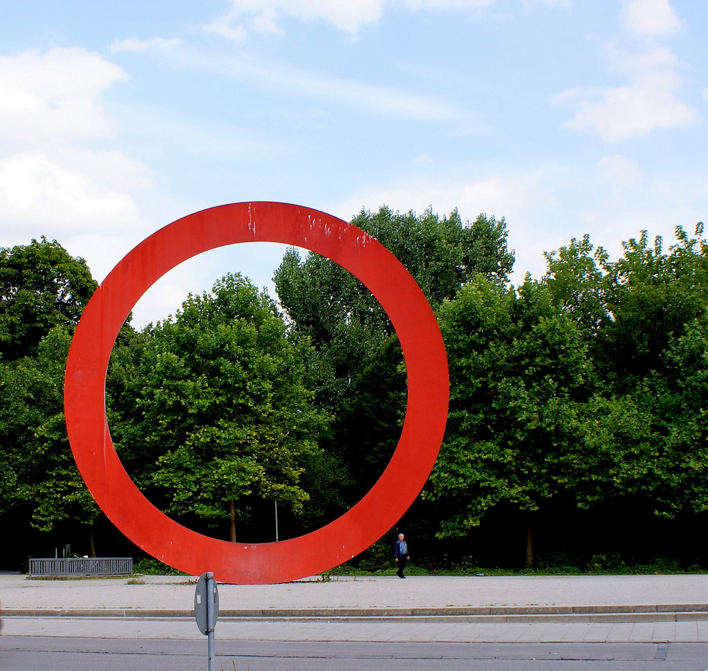 Anello (Der Ring) (1996 by Mauro Staccioli in Munich/Germany